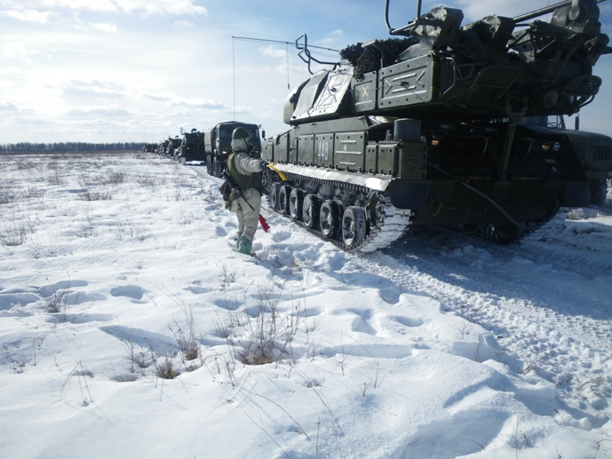 Units of the 140th Anti-Aircraft Rocket Brigade moving to the Telemba training range